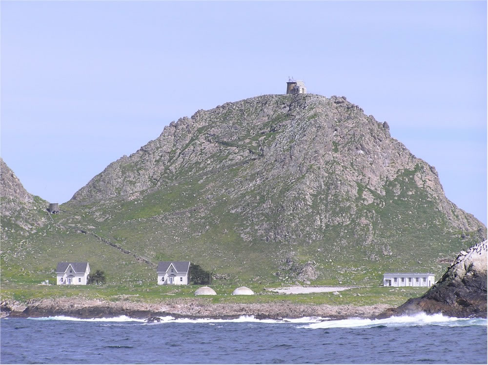 Southeast Farallon Islands, Coast Guard Station